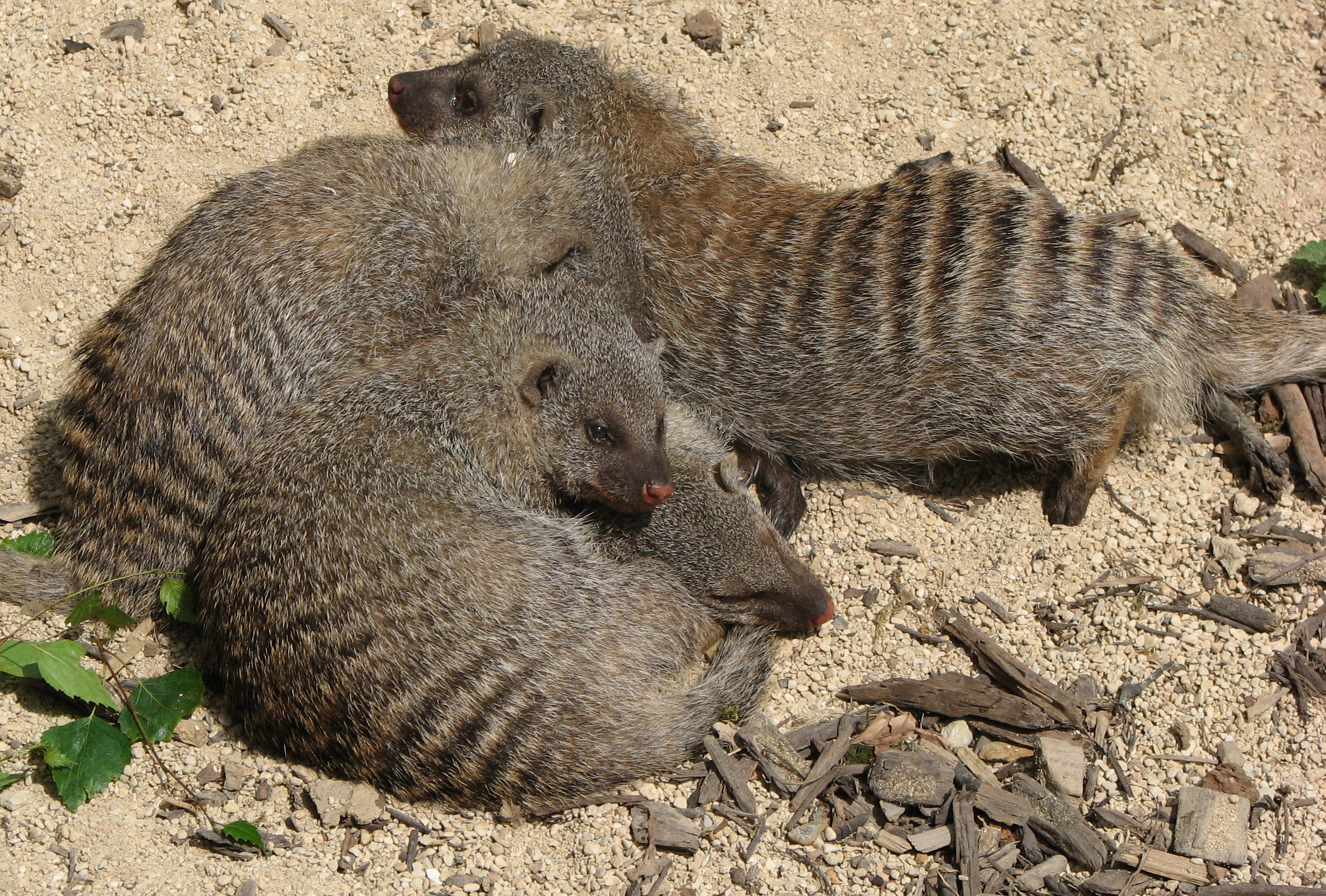 Banded Mongoose Mungos mungo at the Cotswold Wildlife Park, Oxfordshire, England.